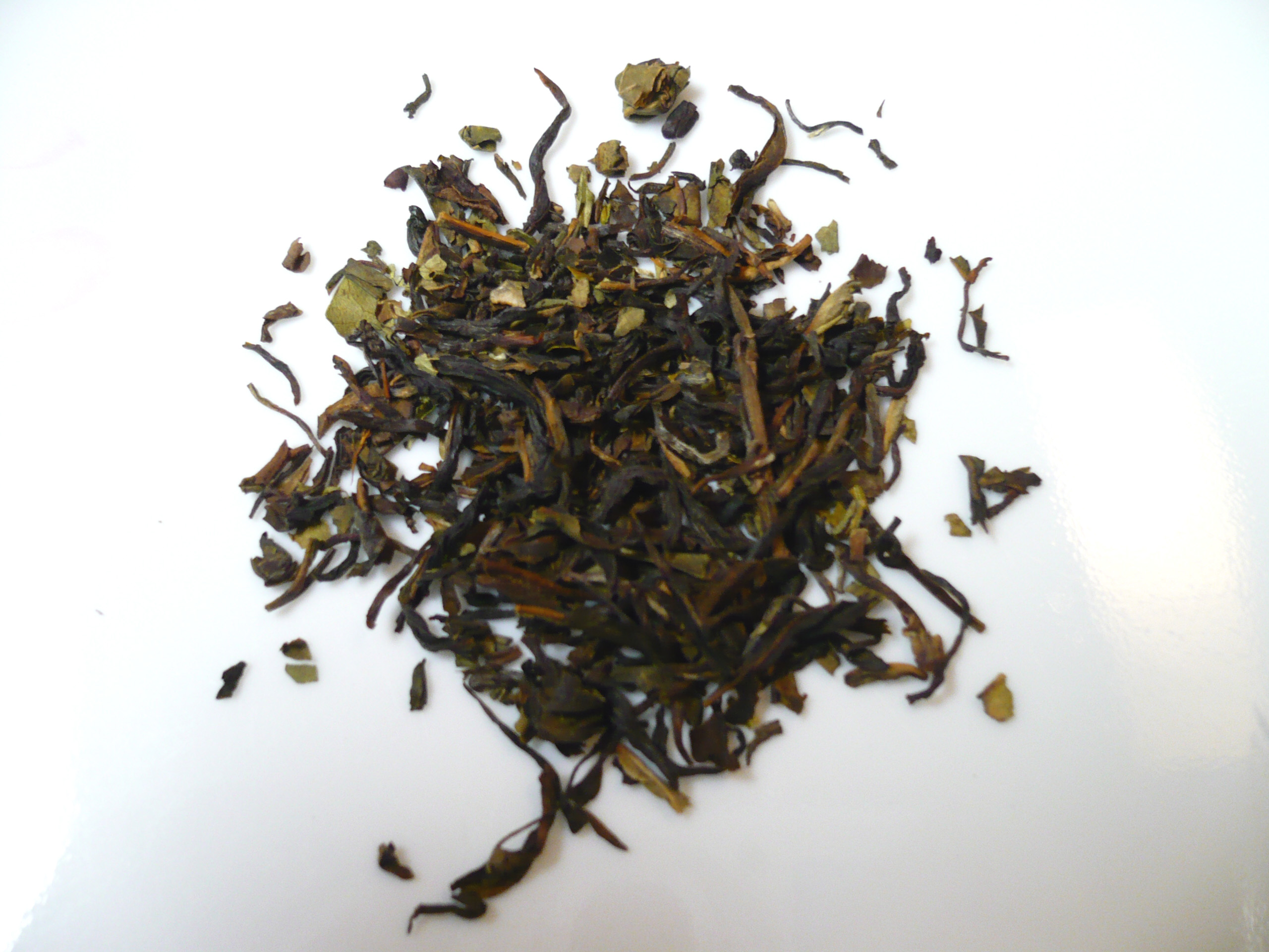 Organic Dunsandle Nilgiri tea, a black tea from the Dunsandle Tea Garden Estate in South India. Tea purchased in loose form from Davidson's Tea.